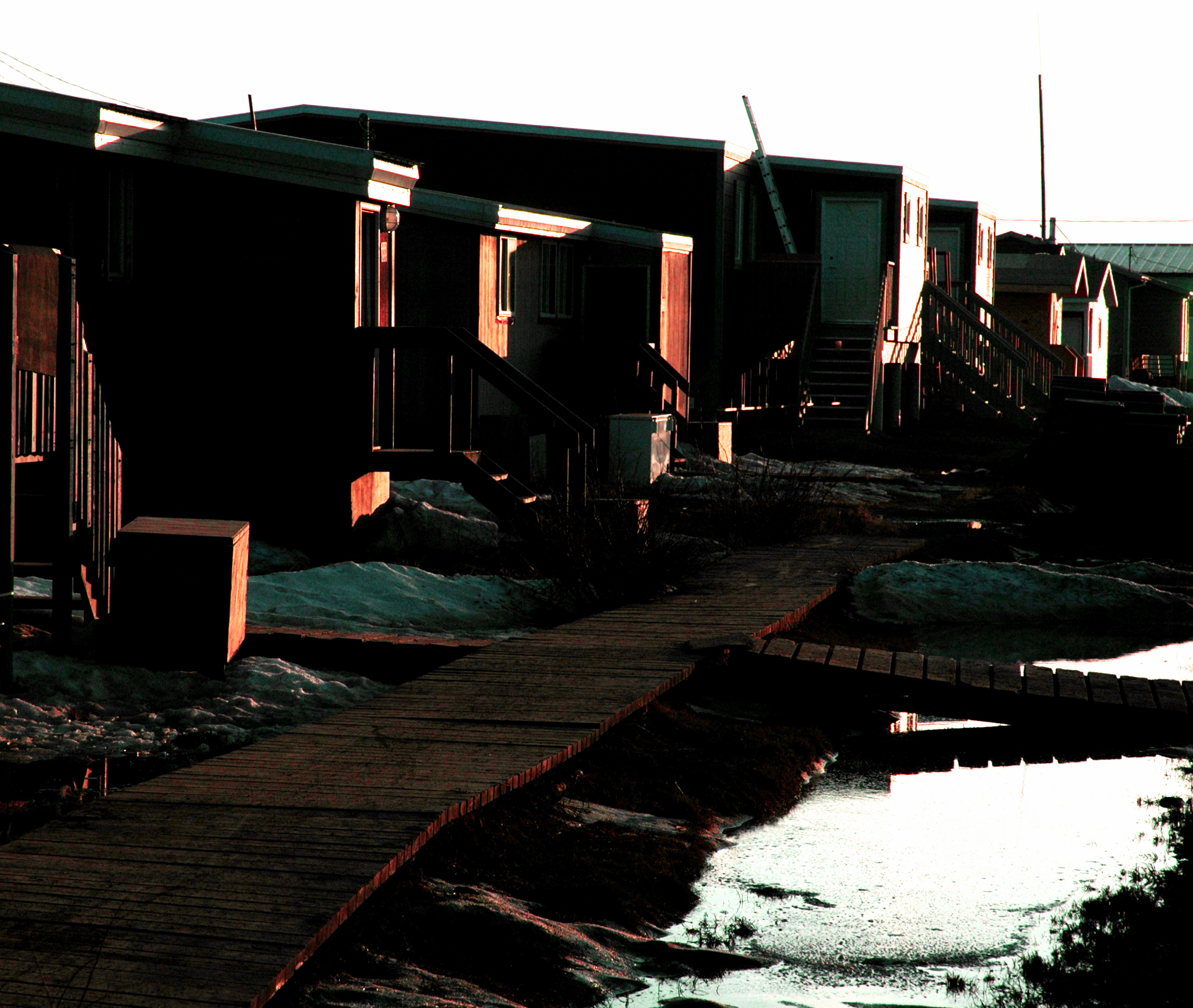 Aklavik in the Northwest Territories, Canada